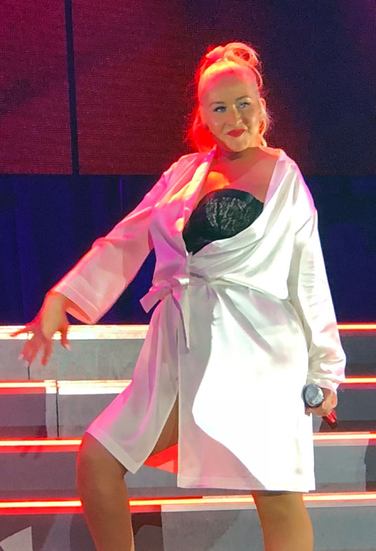 American recording artist Christina Aguilera performing "Lady Marmalade". The performance took place at the Pepsi Center in Denver, Colorado, on October 19, 2018.